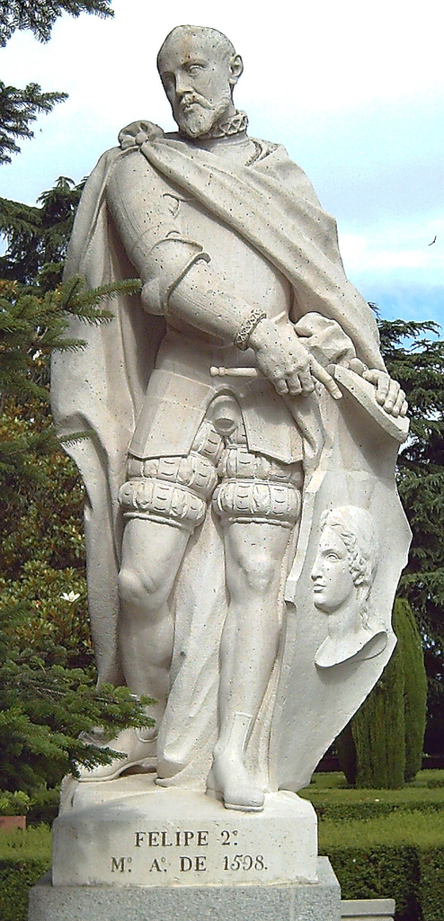 Statue of Philip II of Spain (1527–1598) at the Sabatini Gardens in Madrid (Spain). Sculpted in white stone by Felipe de Castro (1711–1775) between 1750 and 1753.